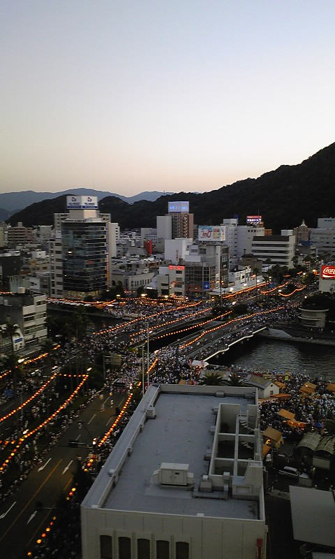 View of Awa Dance from Tokushima-Sogo.